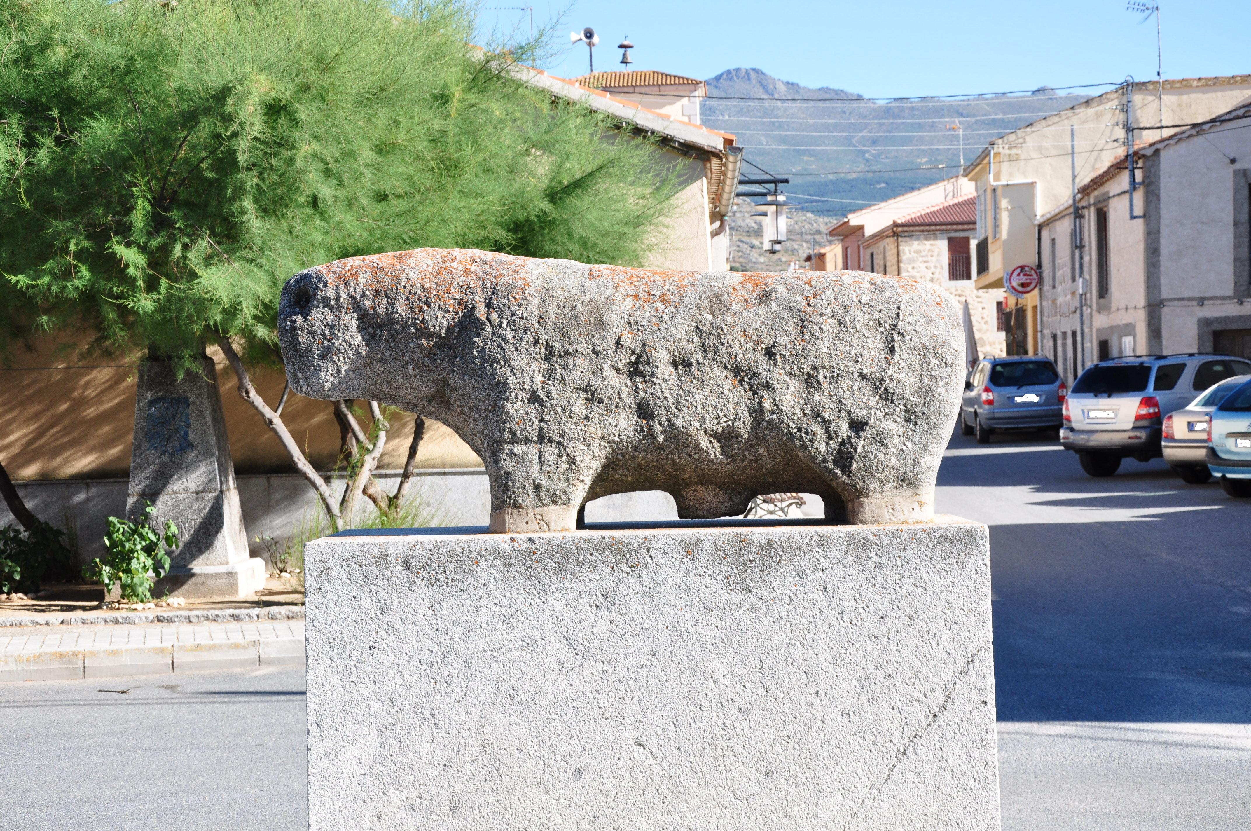 Verraco of Ulaca, Solosancho, Ávila, Spain. Vettone´s sculpture.